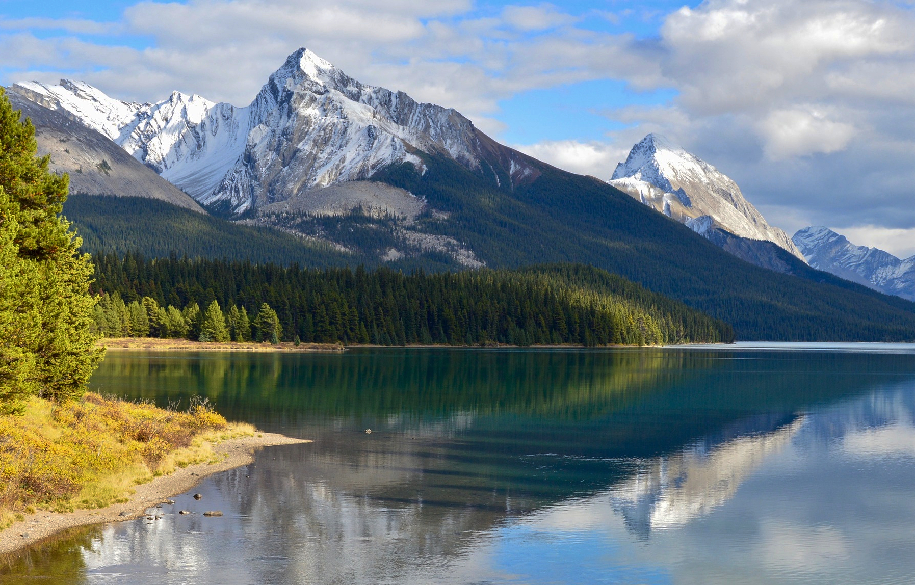 Leah Peak reflected in Maligne Lake, Jasper National Park, Alberta, Canada